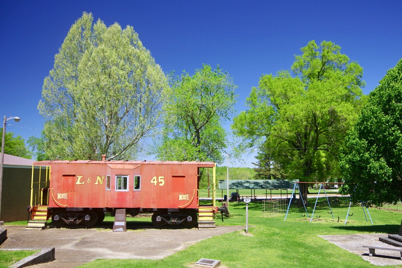 Templeton Park in Bruceton, Tennessee, United States, with caboose on the left.